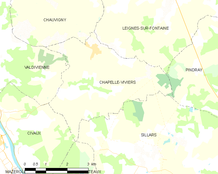 Map of French municipality Chapelle-Viviers